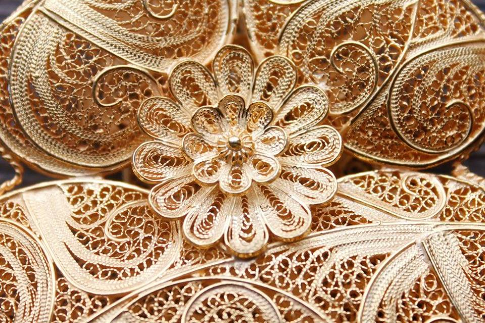 Portuguese filigree intricate work